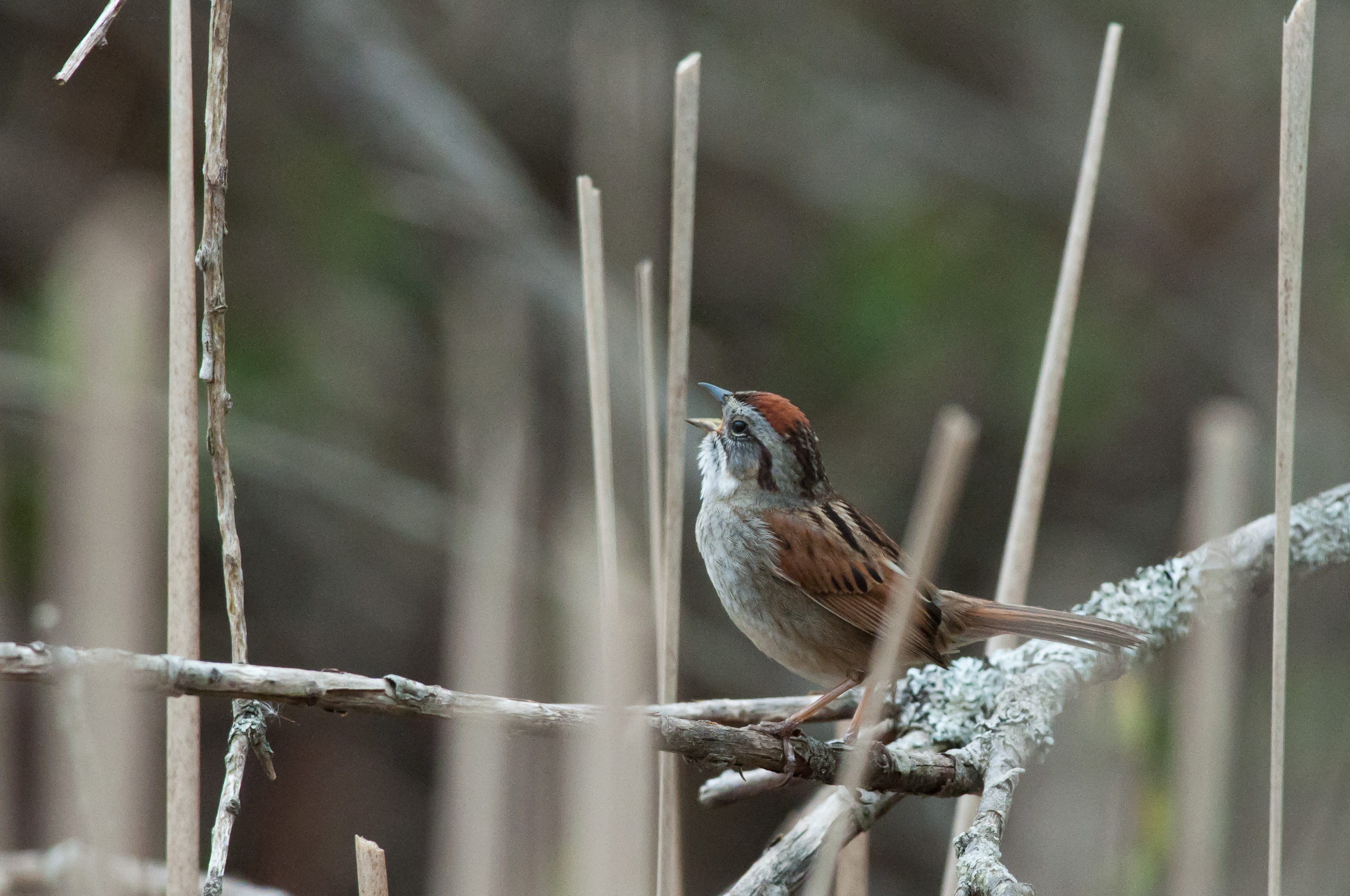 Swamp Sparrow